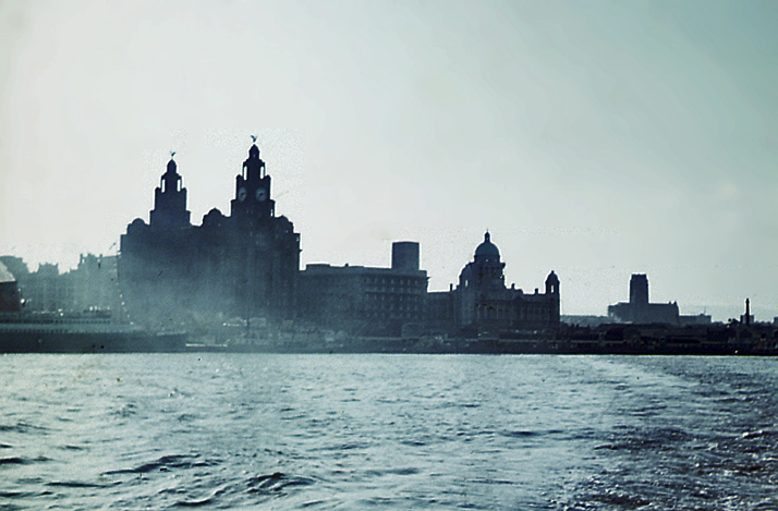 You live in a place for 20 years, and this is the sort of shot you don't take until the day before you leave.